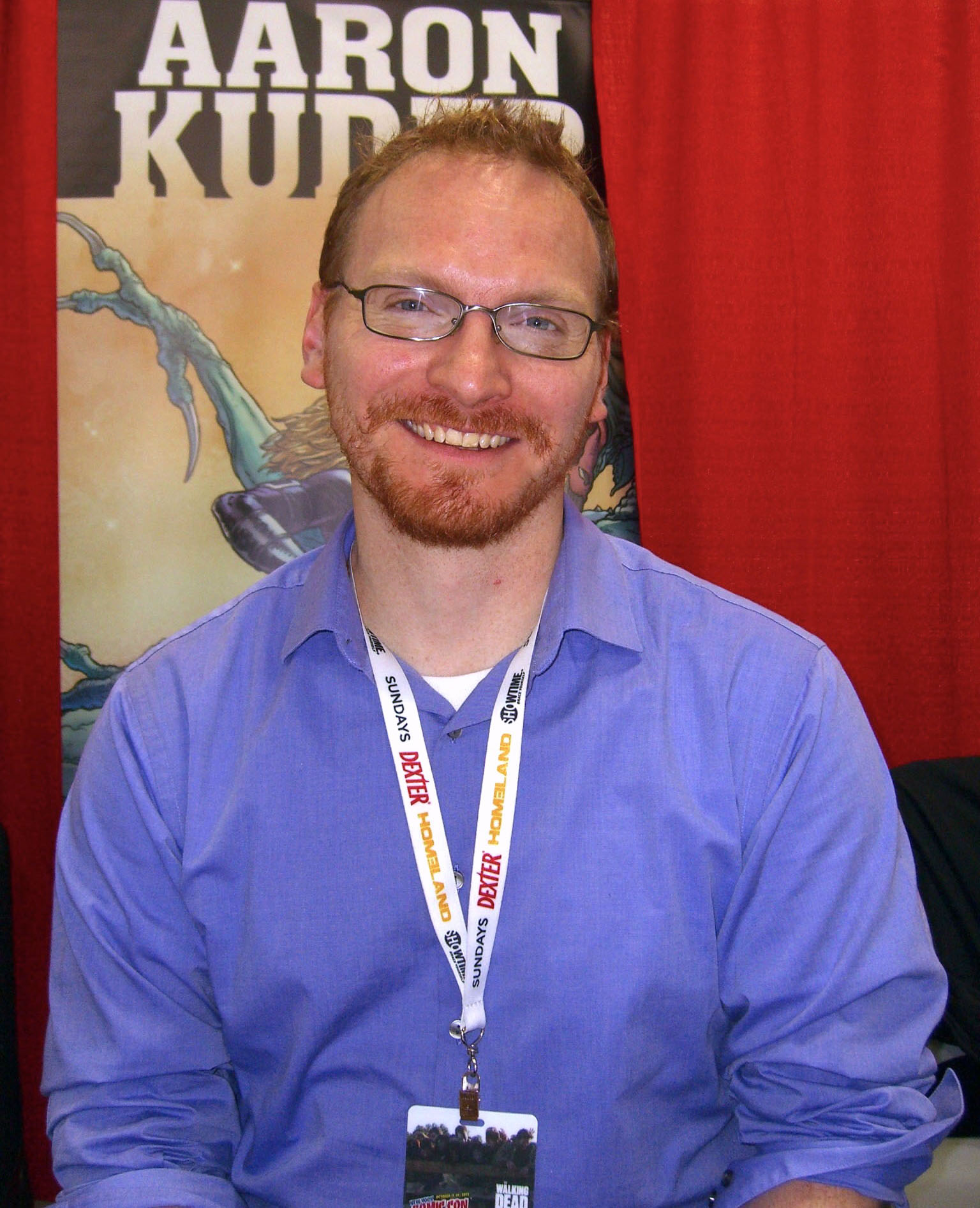 Comics creator Aaron Kuder on Day 3 of the 2012 New York Comic Con, Saturday October 13, 2012 at the Jacob K. Javits Convention Center in Manhattan. This photo was created by Luigi Novi. It is not in the public domain, and use of this file outside of the licensing terms is a copyright violation.